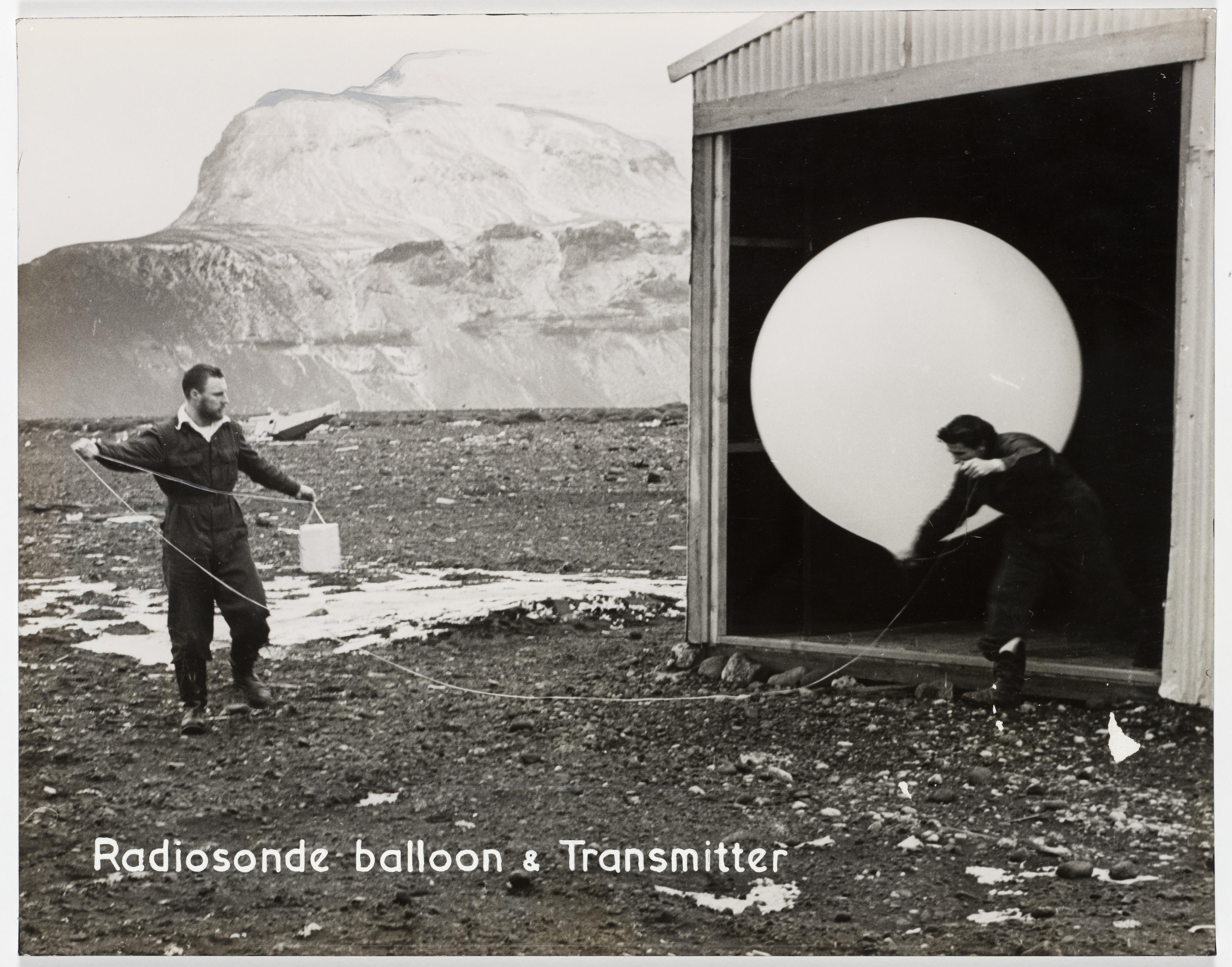 ANARE expedition c. 1953-57. Photographs from NSW Dept of Education collection Format: Photograph Find more detailed information about this photographic collection: From the collection of the State Library of New South Wales